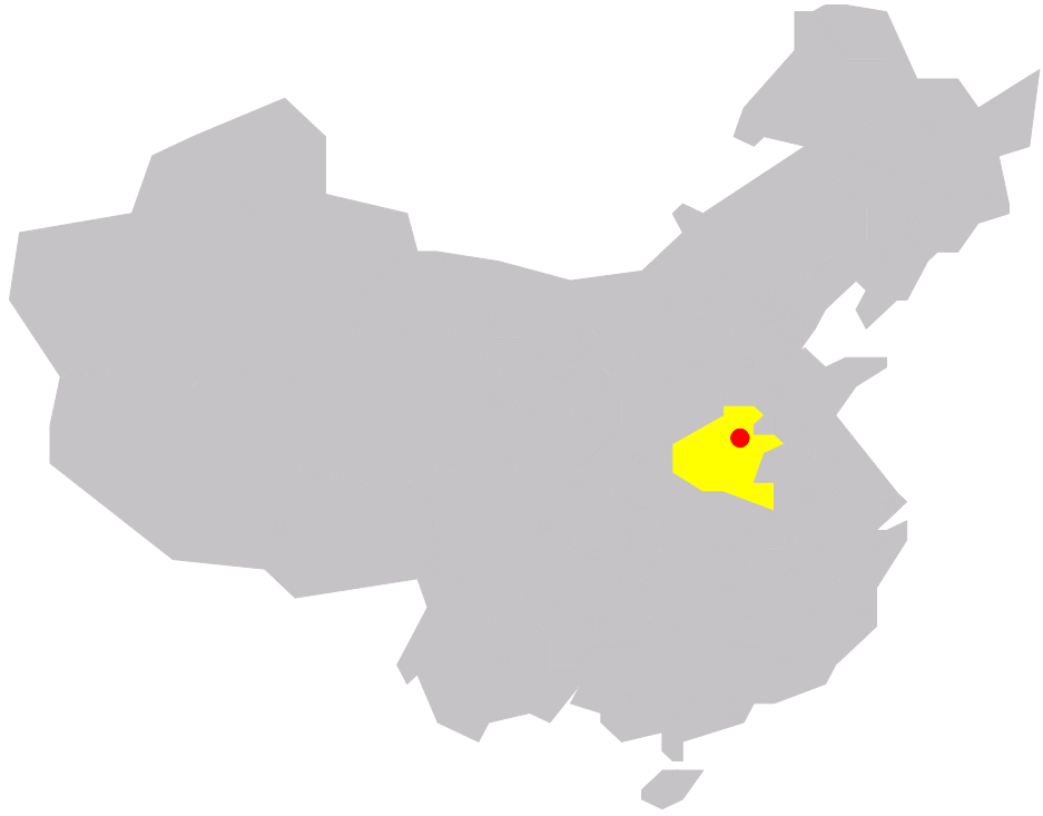 position of Kaifeng in China